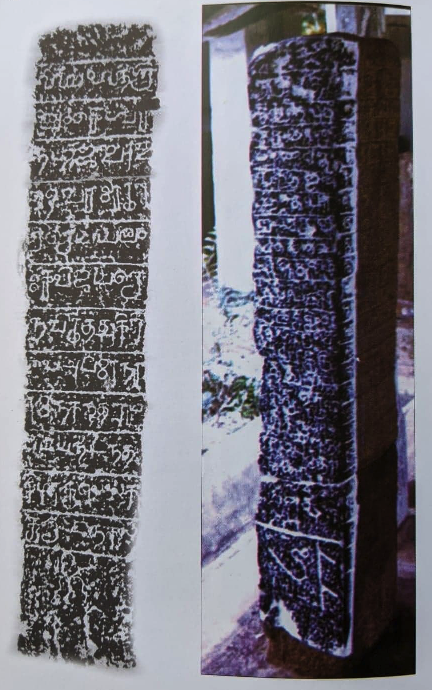 Mankanay Pillar inscription